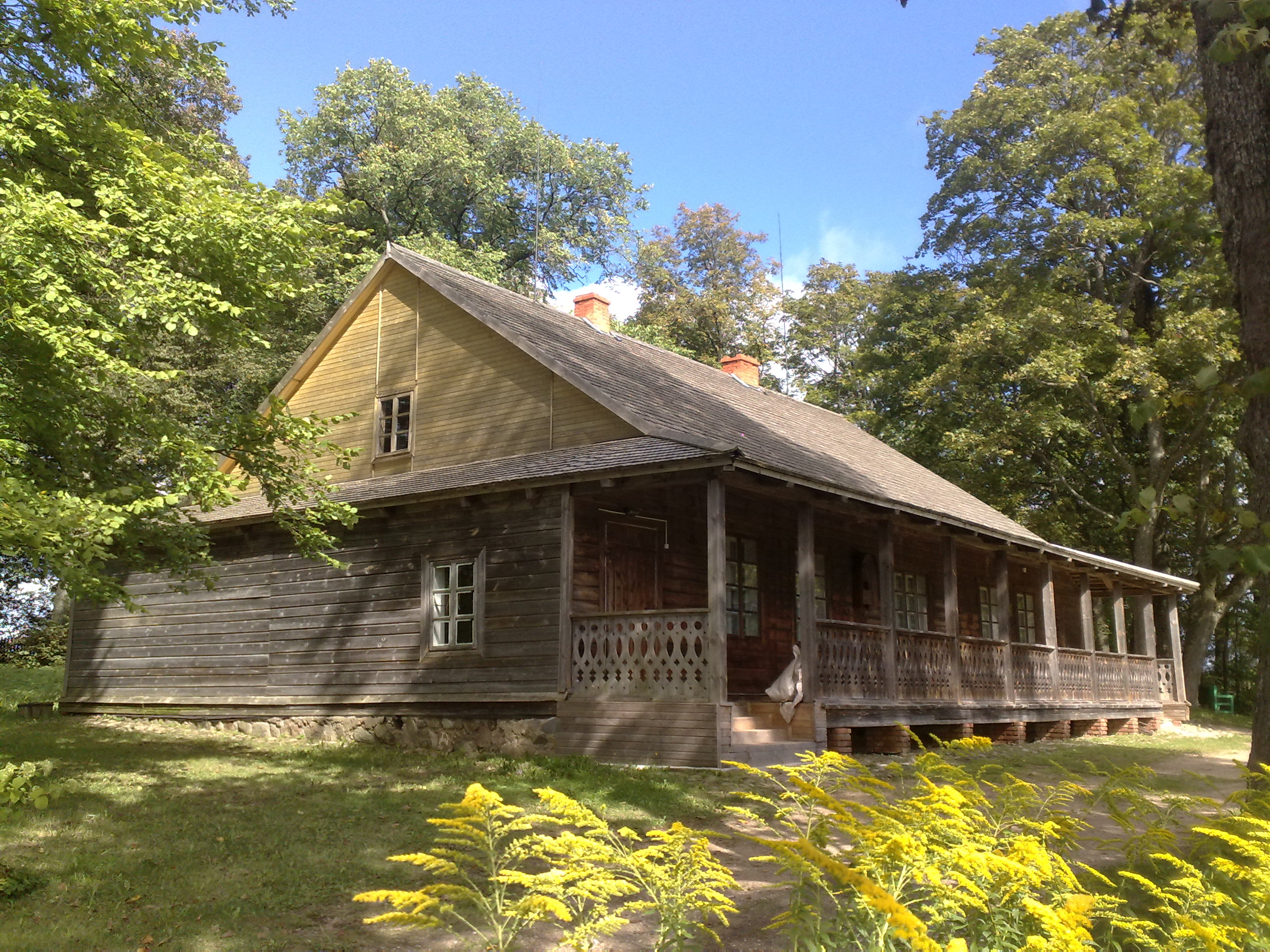 House of Francišak Bahuševič in Kušliany, Belarus